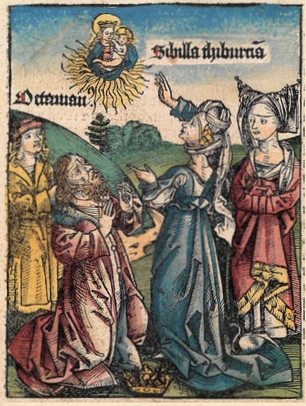 This is a part of a scan of an historical document: Title: Schedelsche Weltchronik or Nuremberg Chronicle